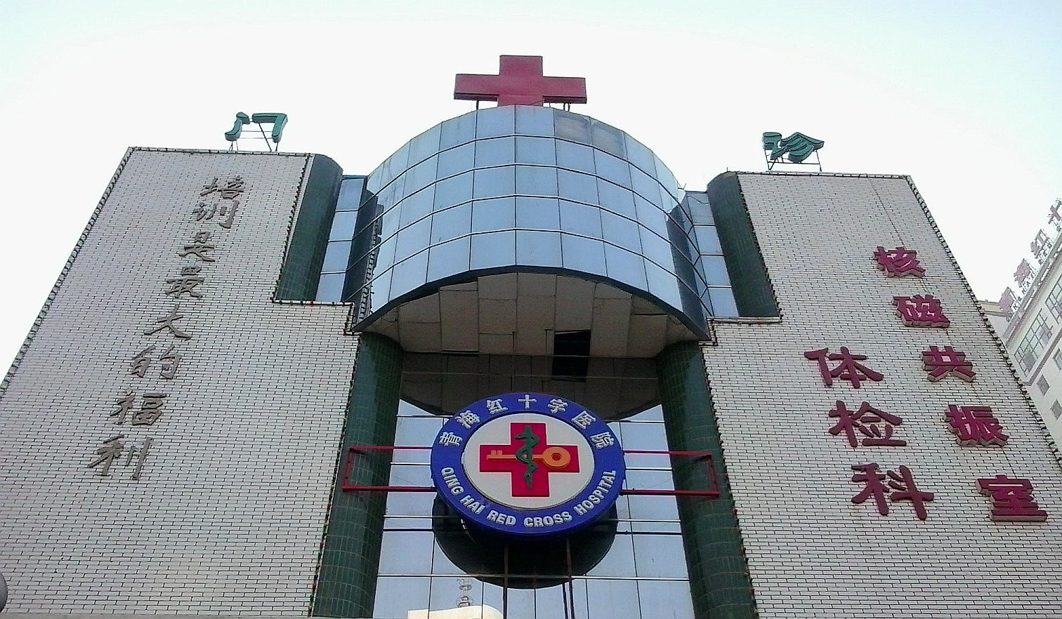 Red-cross hospital Xining, Qinghai, China